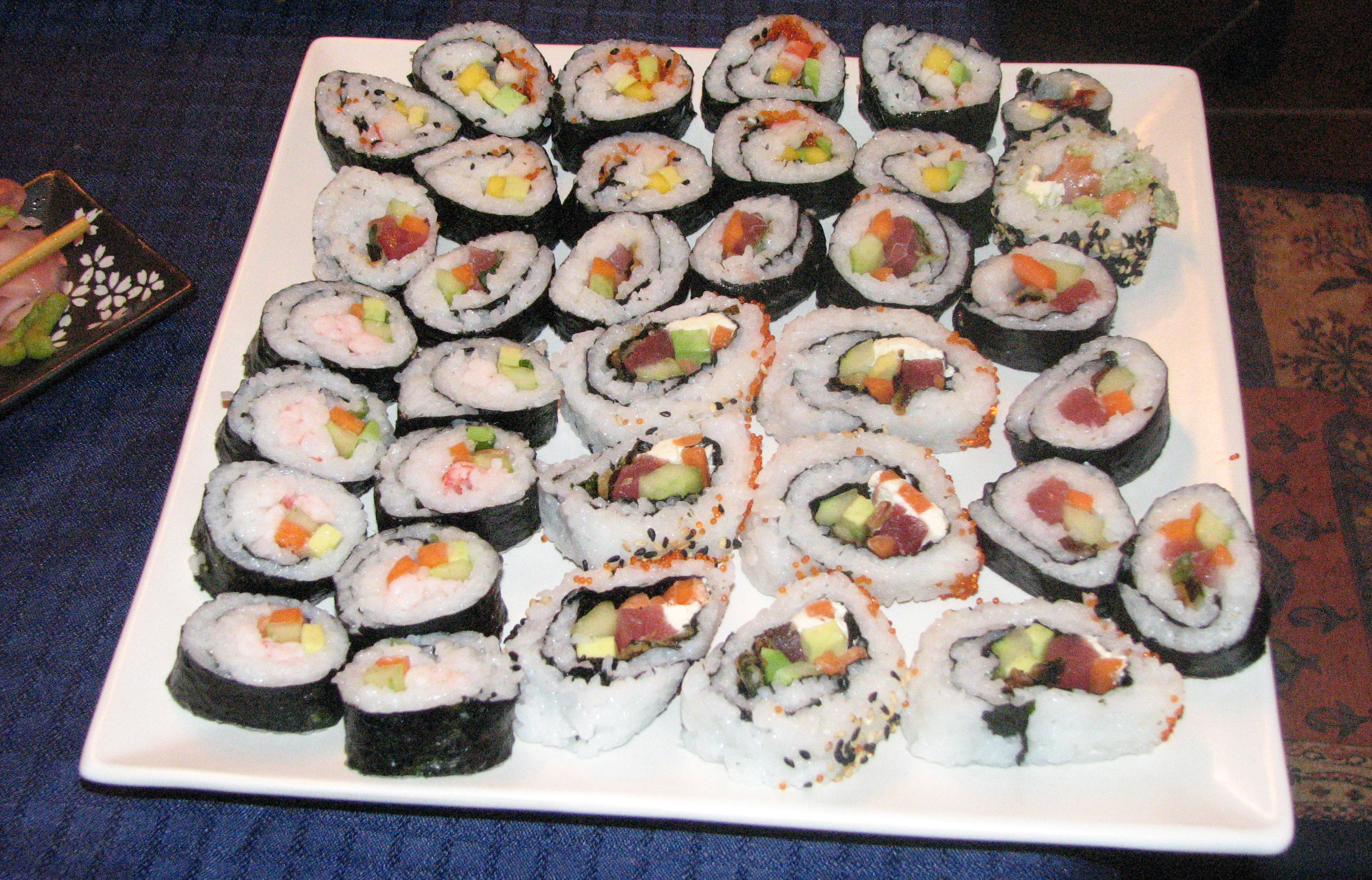 An assortment of maki zushi.